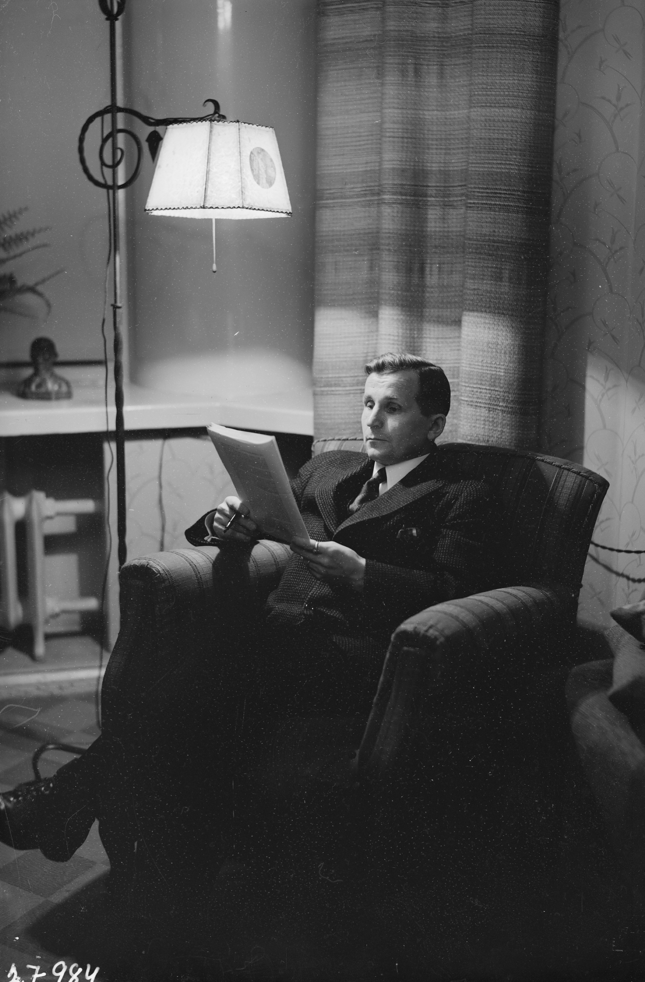 Photograph of the Finnish geodesist Veikko Heiskanen (1895–1971).